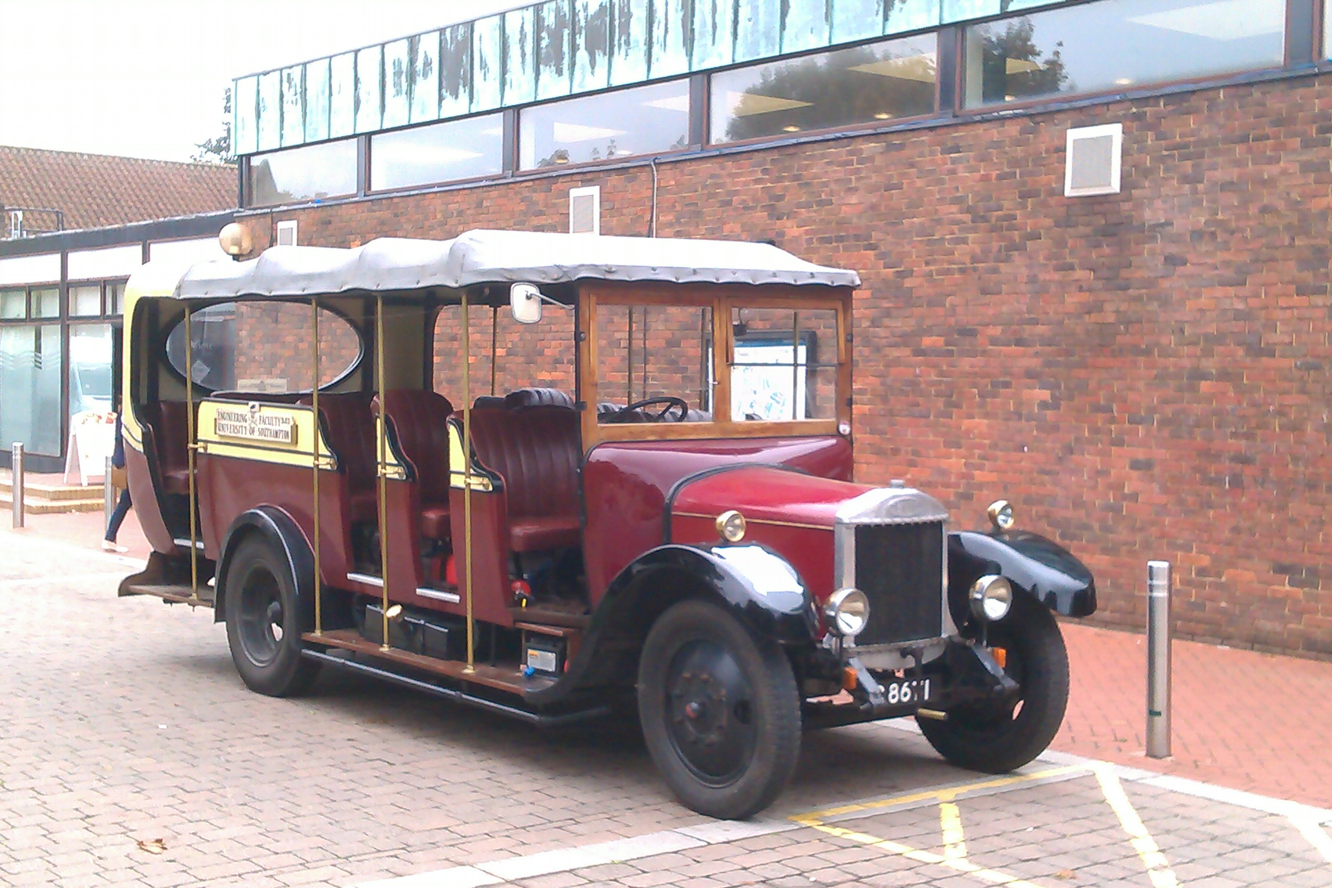 Toast rack - the University of Southampton Engineering Society's minibus. Still used for trips students can get involved in maintaining the vehicle which has been in the societies possession since 1958. Seen here in front of Building 38 during Fresher's Week 2013.